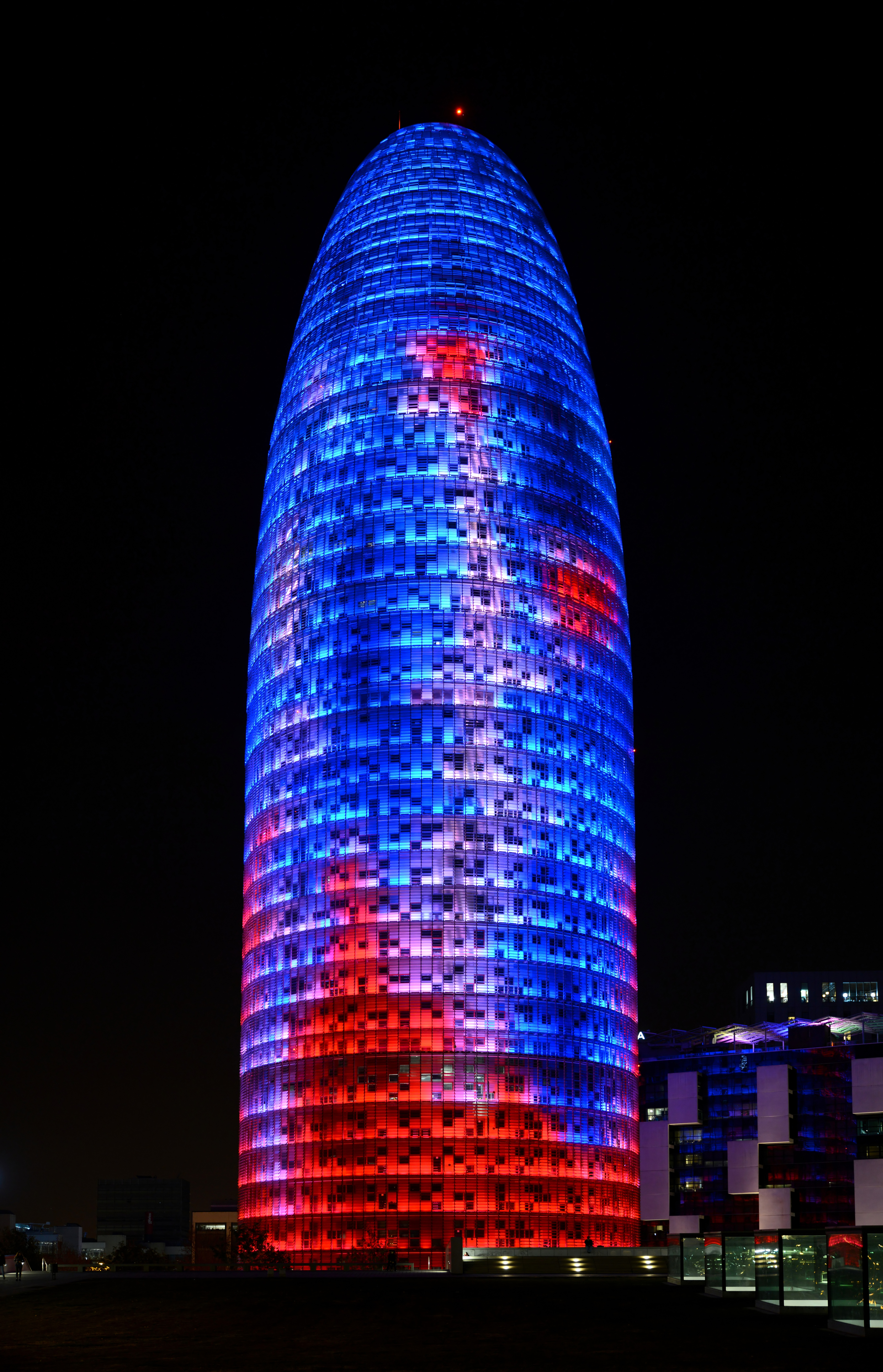 The Agbar Tower (Torre Agbar) at night, in Barcelona, Spain (detail)